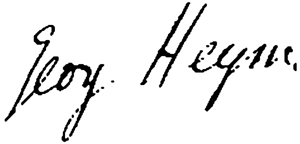 Signature of Georg Heym